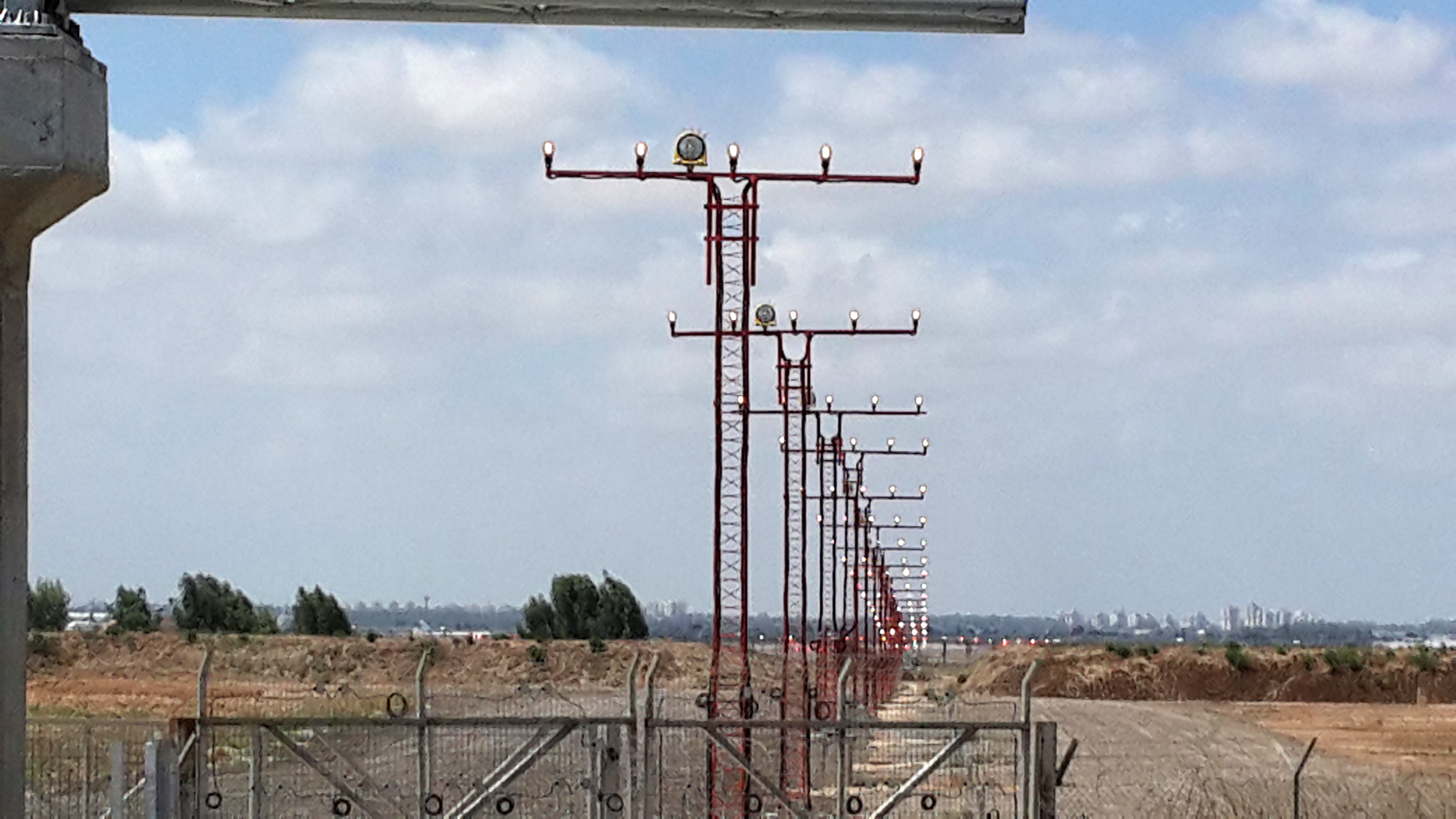 Approach lights of 03/21 runway in Ben-Gurion airport